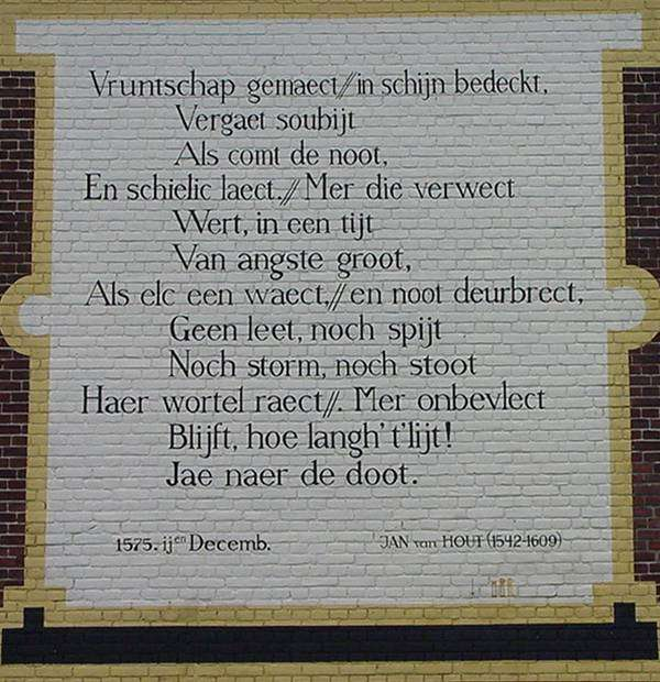 Wallpoem in de city of Leiden in the Netherlands.